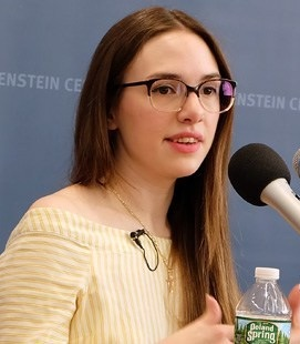 Elizabeth Bruening speaking at the Shorenstein Center in February 2018.